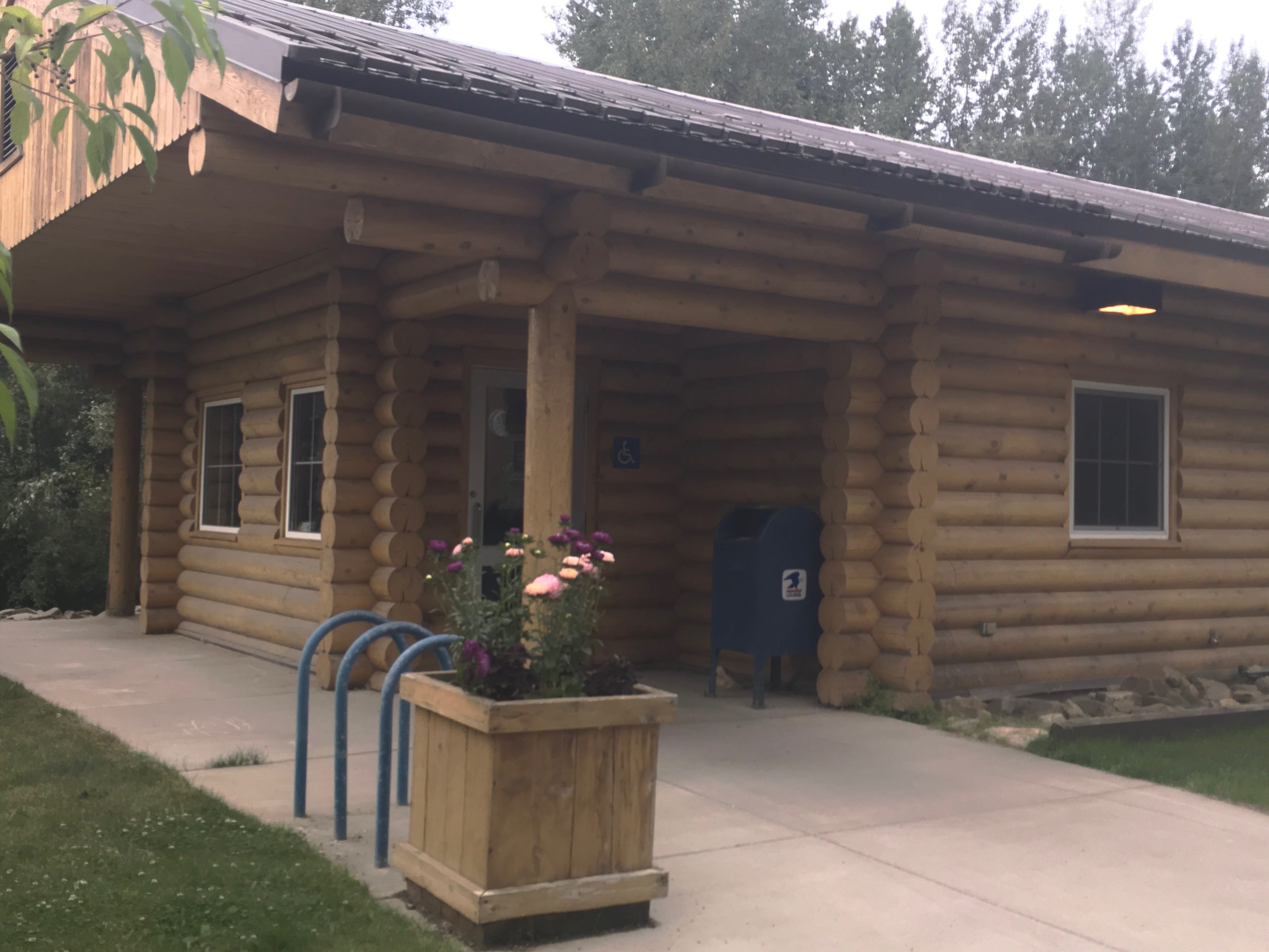 The USPS in Ester, Alaska, zip code 99775